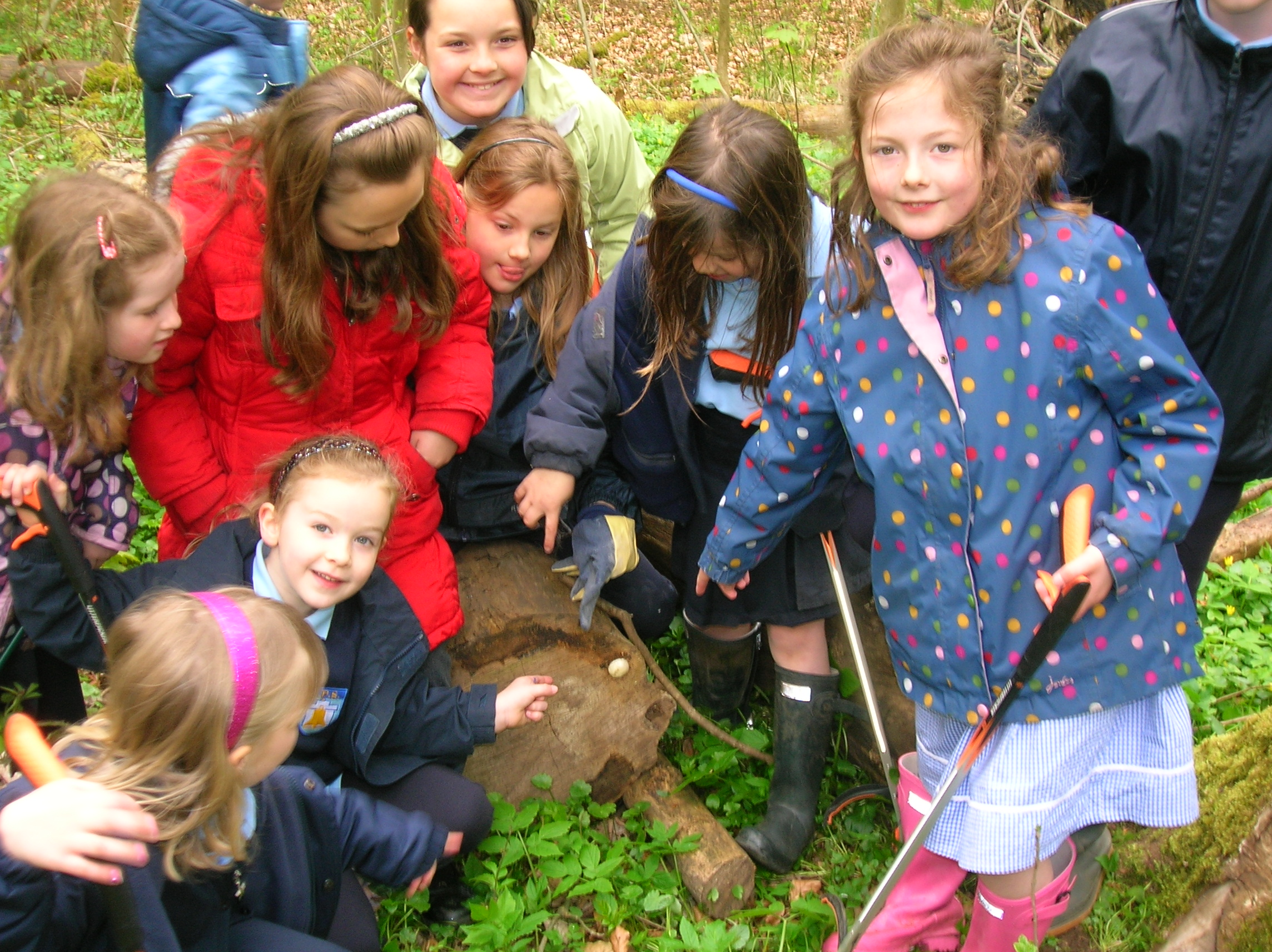 Gateside Primary School at Spier's Old School Grounds with a specimen of the Slime mould Enteridium lycoperdon. Ayrshire, Scotland.